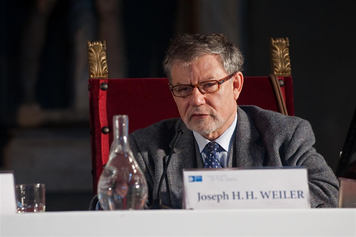 Joseph H. H. Weiler at The State of the Union 2013, European University Institute.